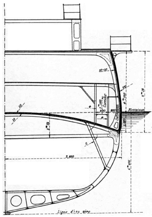 A middle cross-section of the French armoured cruiser Dupuy de Lôme.